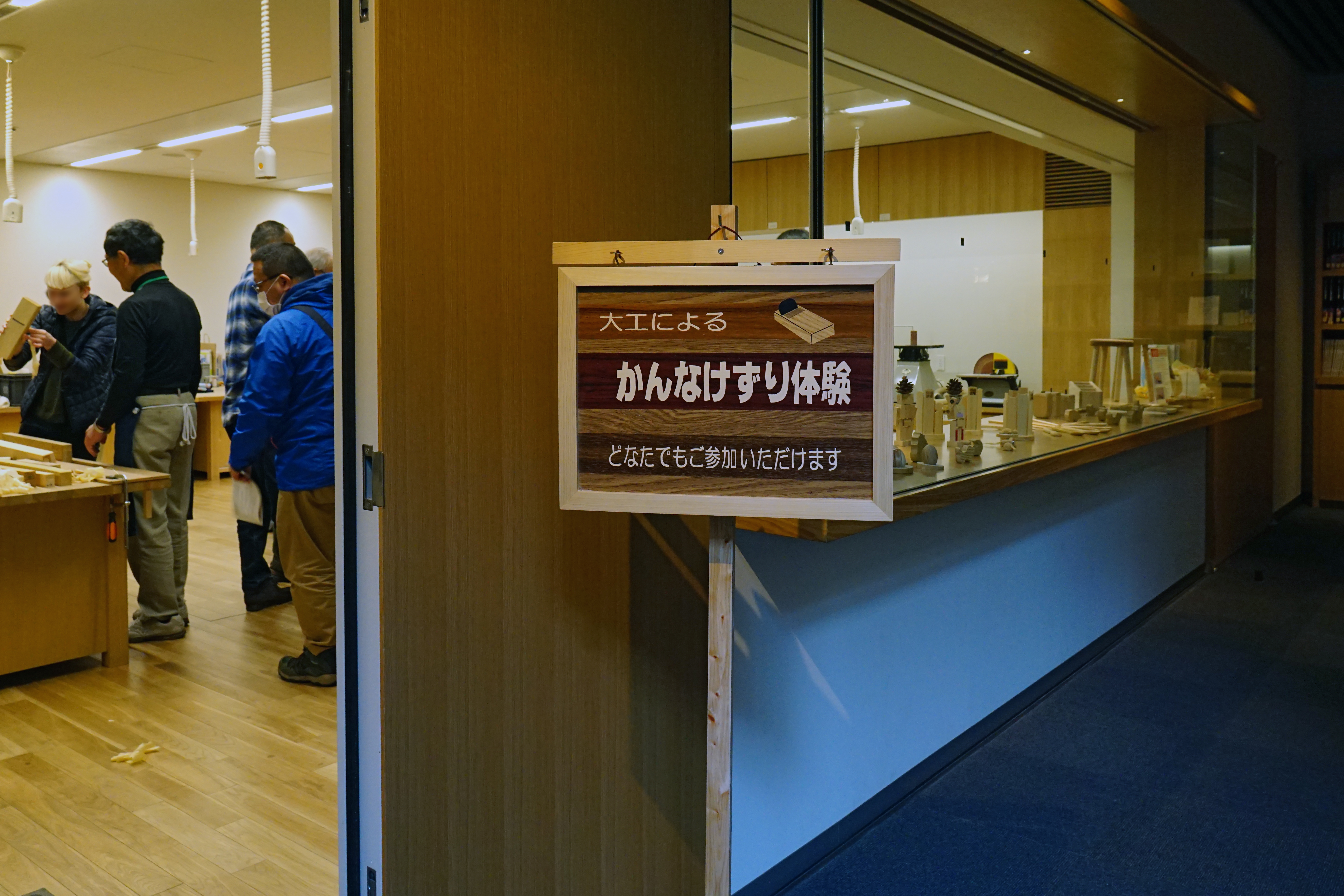 Takenaka Carpentry Tools Museum in Kobe, Hyogo prefecture, Japan.